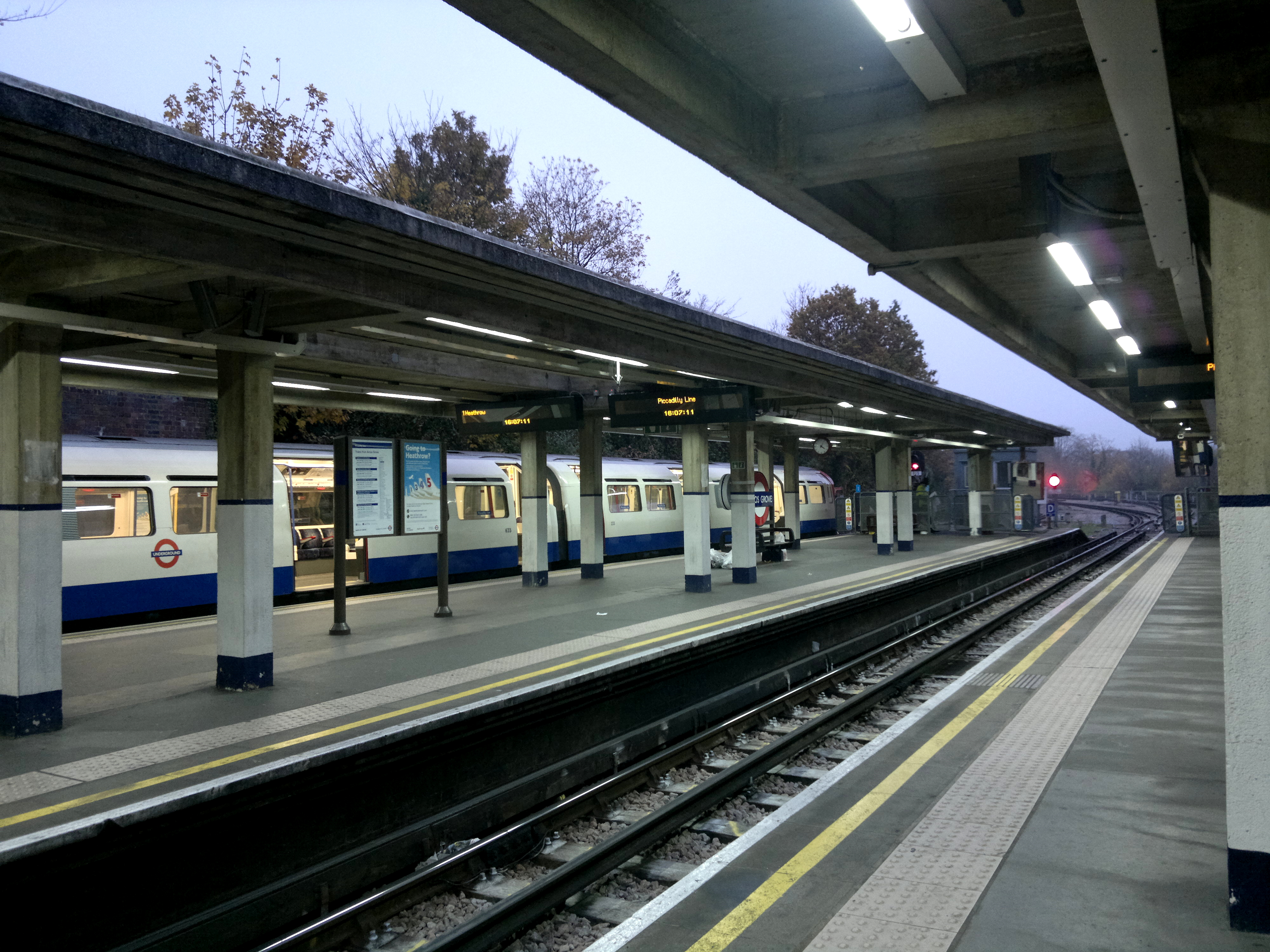 Arnos Grove tube station 16 November 2012.